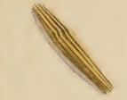 Stainton’s Natural History of the Tineina (1855–1873): Bucculatrix frangutella cocoon